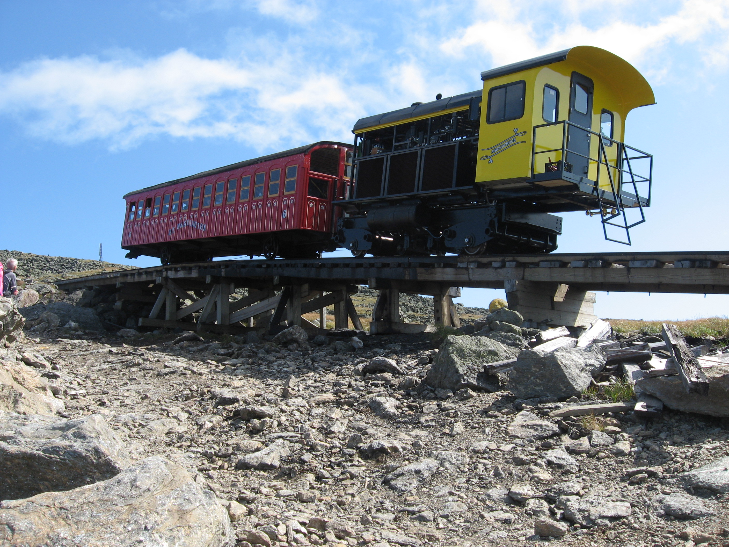 Mount Washington Cog Railway approaching the summit of Mount Washington